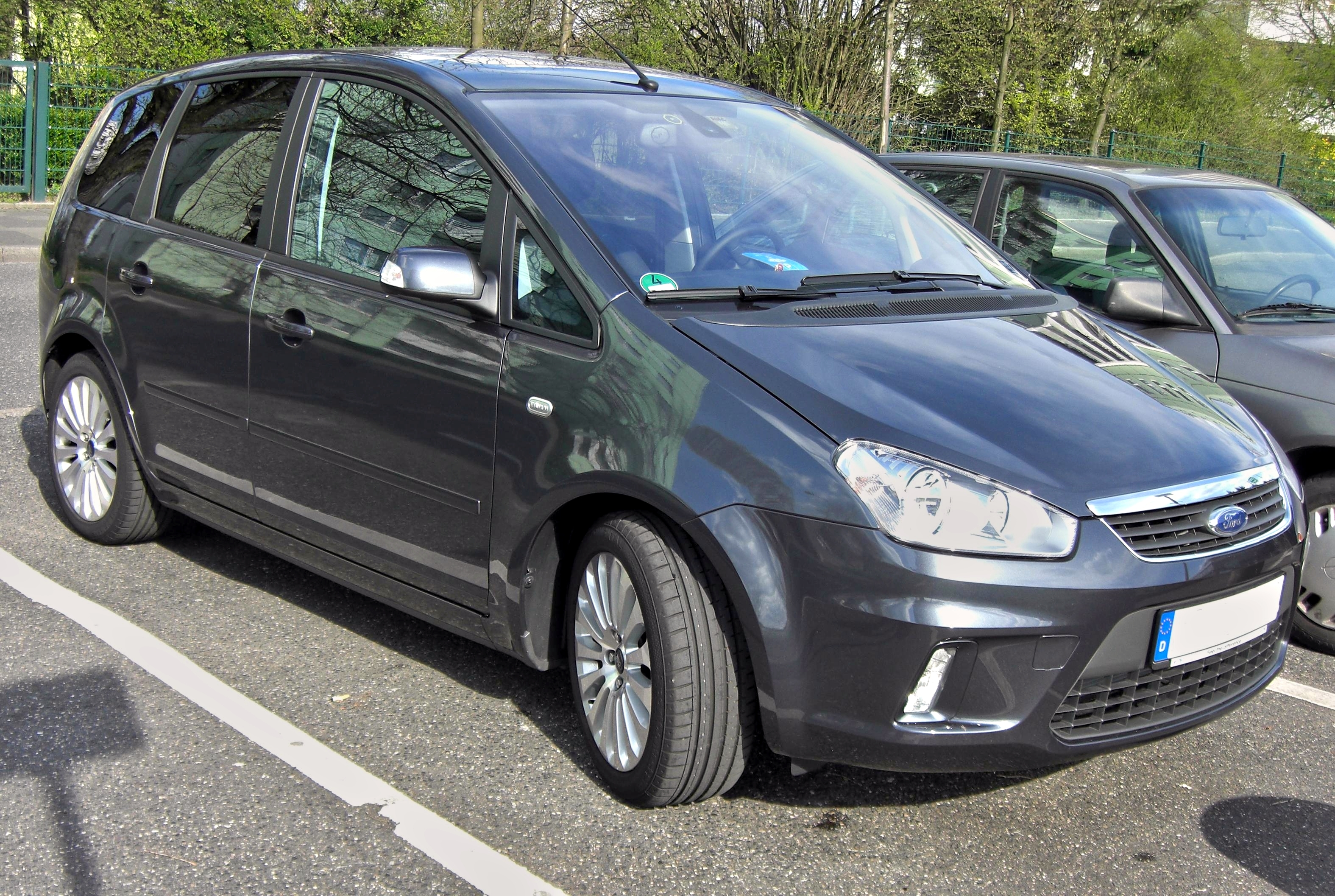 Ford Focus C-Max